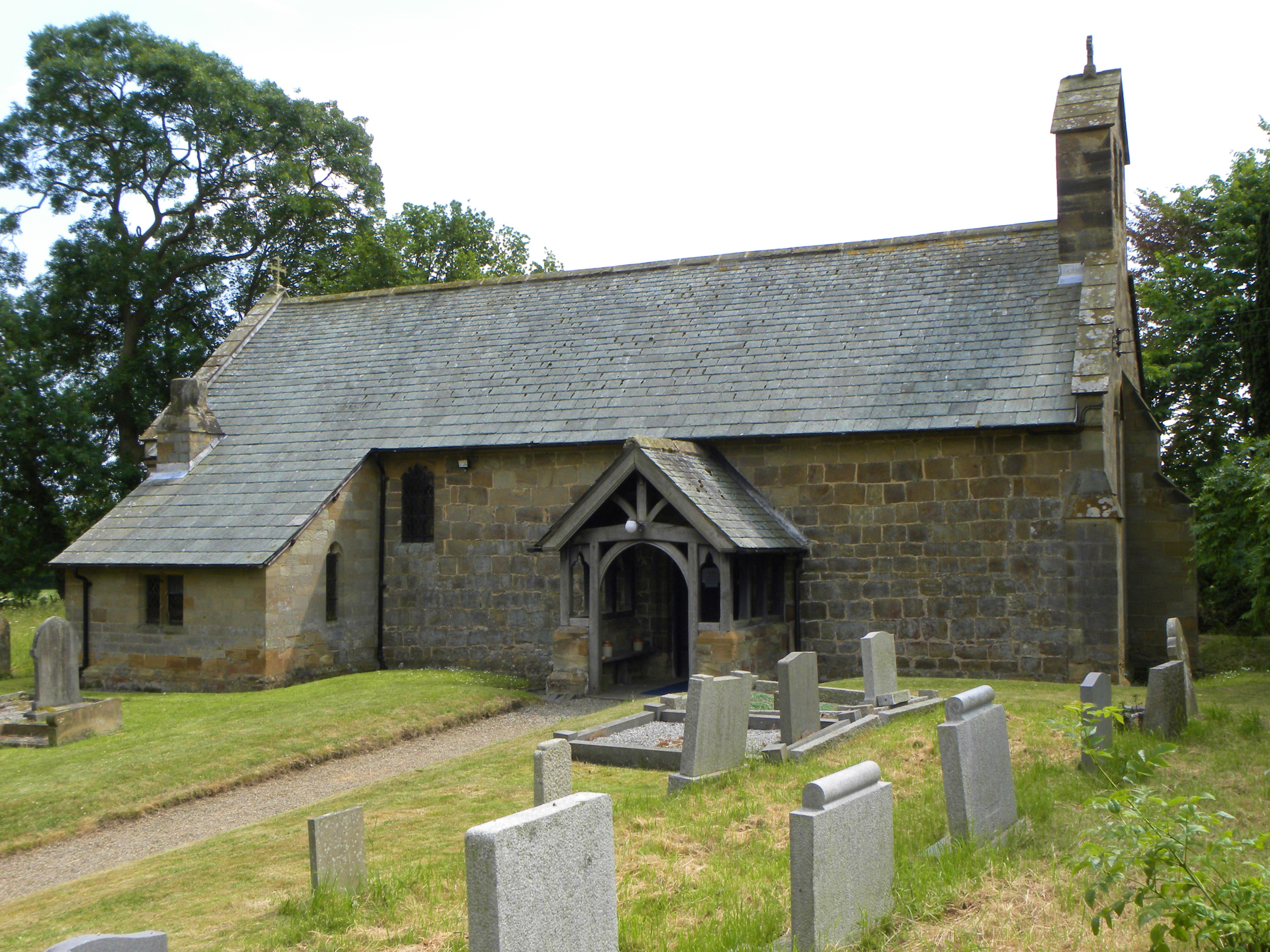 The Norman stone church of St Leonard s in Farlington, North Yorkshire.